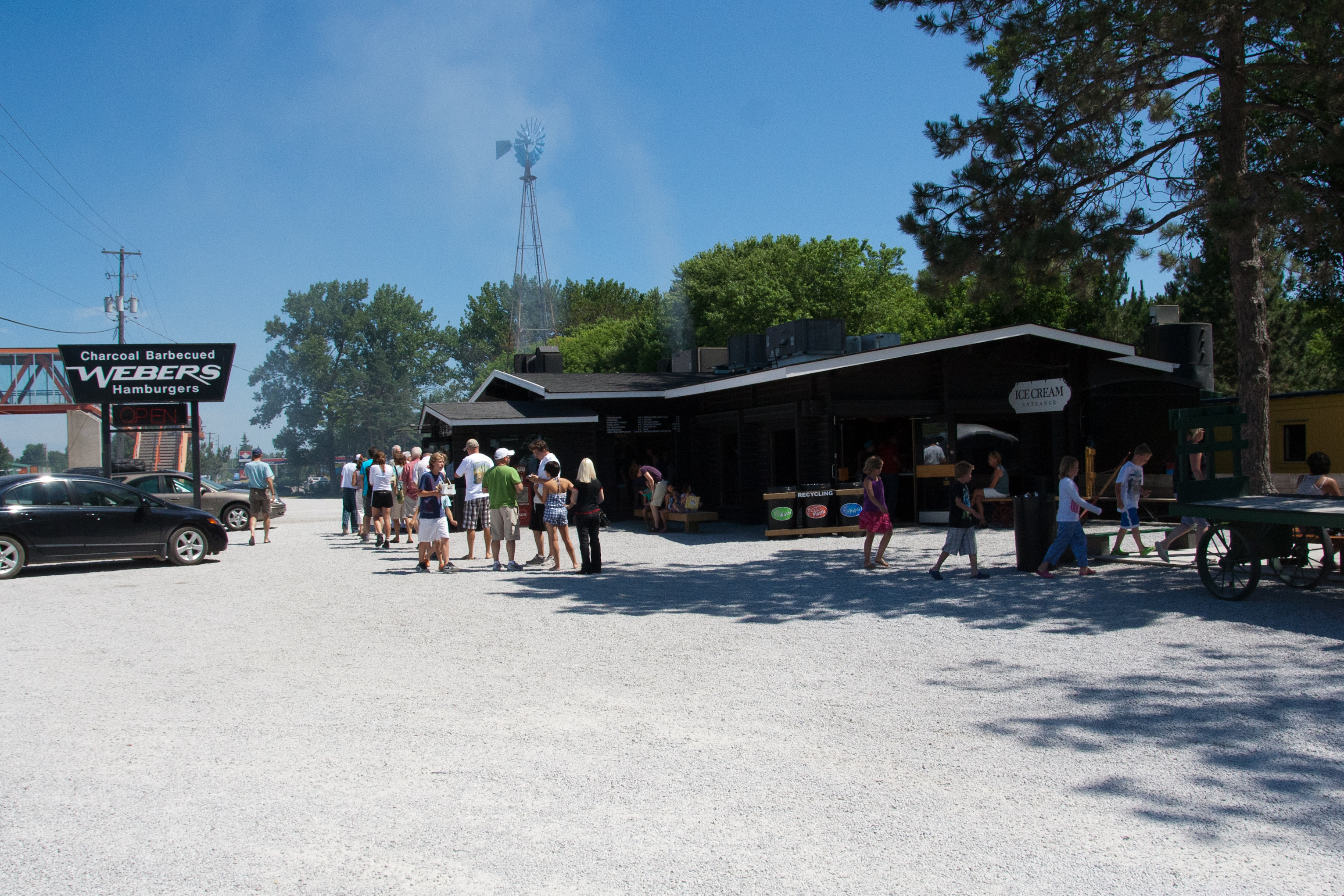 Webers Hamburgers off Highway 11 outside of Orillia